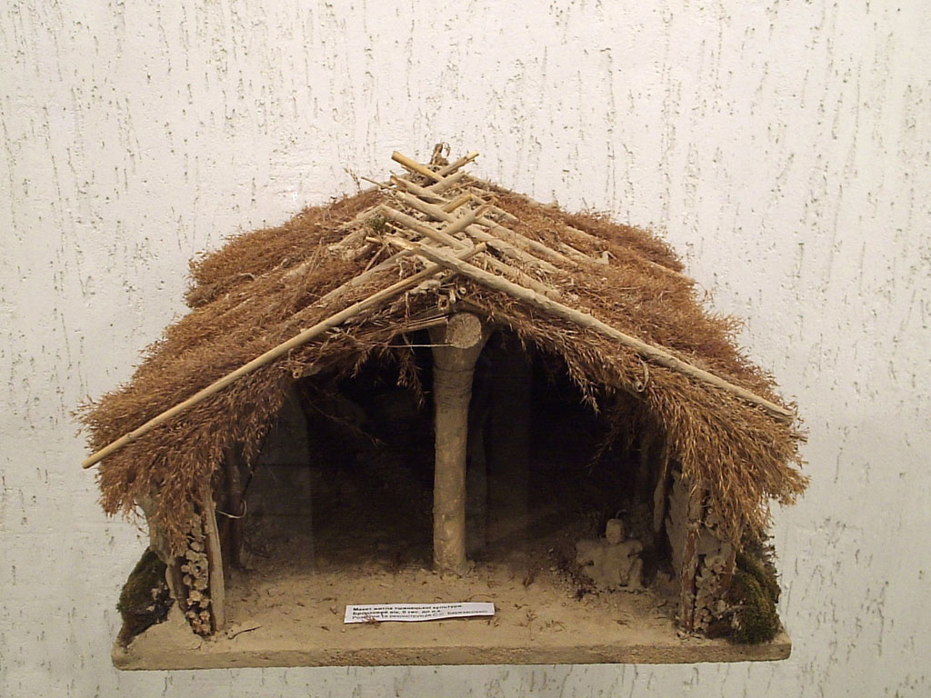 Reconstruction of a Trypillia culture hut on exhibit at the Trypollia Museum.